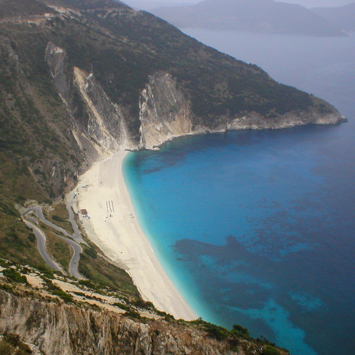 The Myrtos beach in Pylaros/Kefalonia